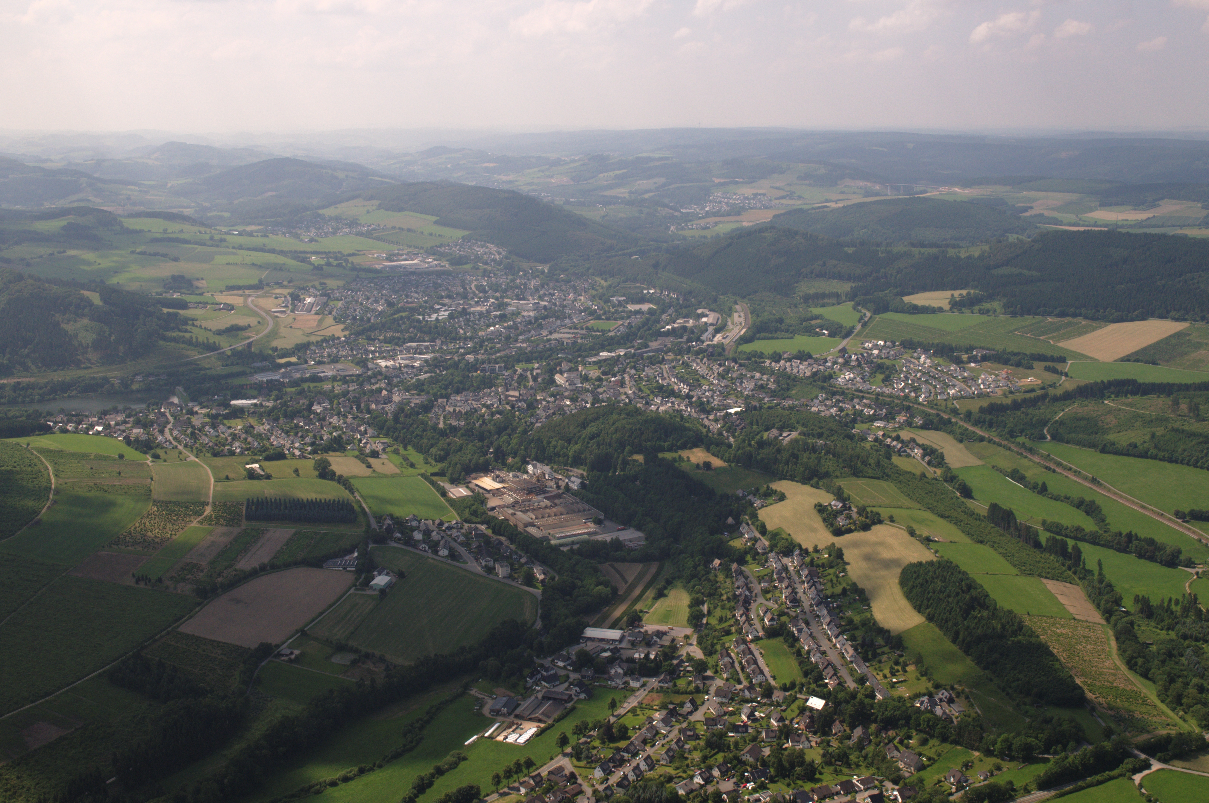 Fotoflug Sauerland-Ost: Olsberg-Gierskopp (vorne) und Olsberg (hinten) The making of this document was supported by the Community-Budget of Wikimedia Germany.